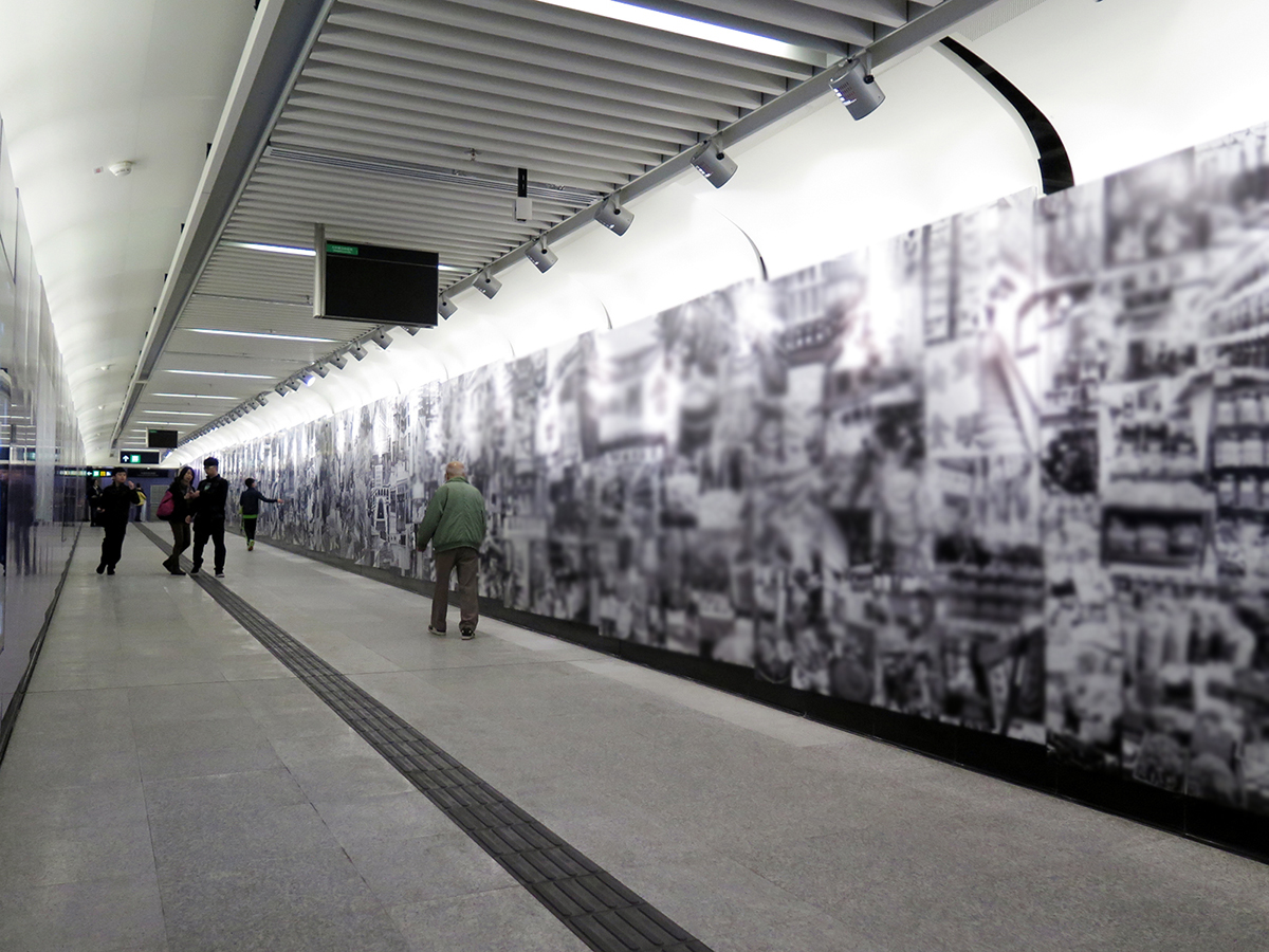 Sai Ying Pun Station Exit B access